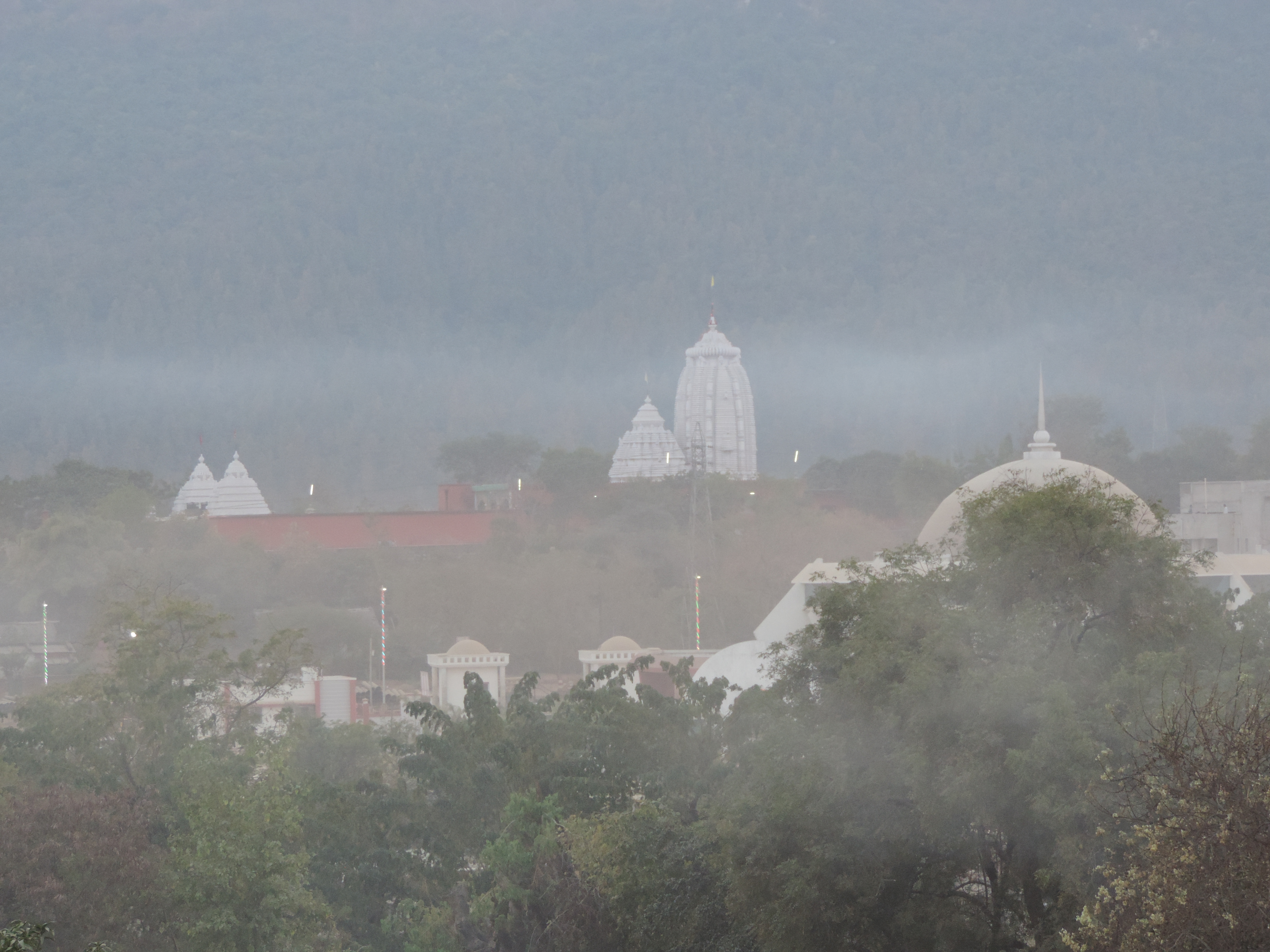 a distant scene of Chandli Dungri mountain, The Jagannath temple on the top of the mountain, Burla